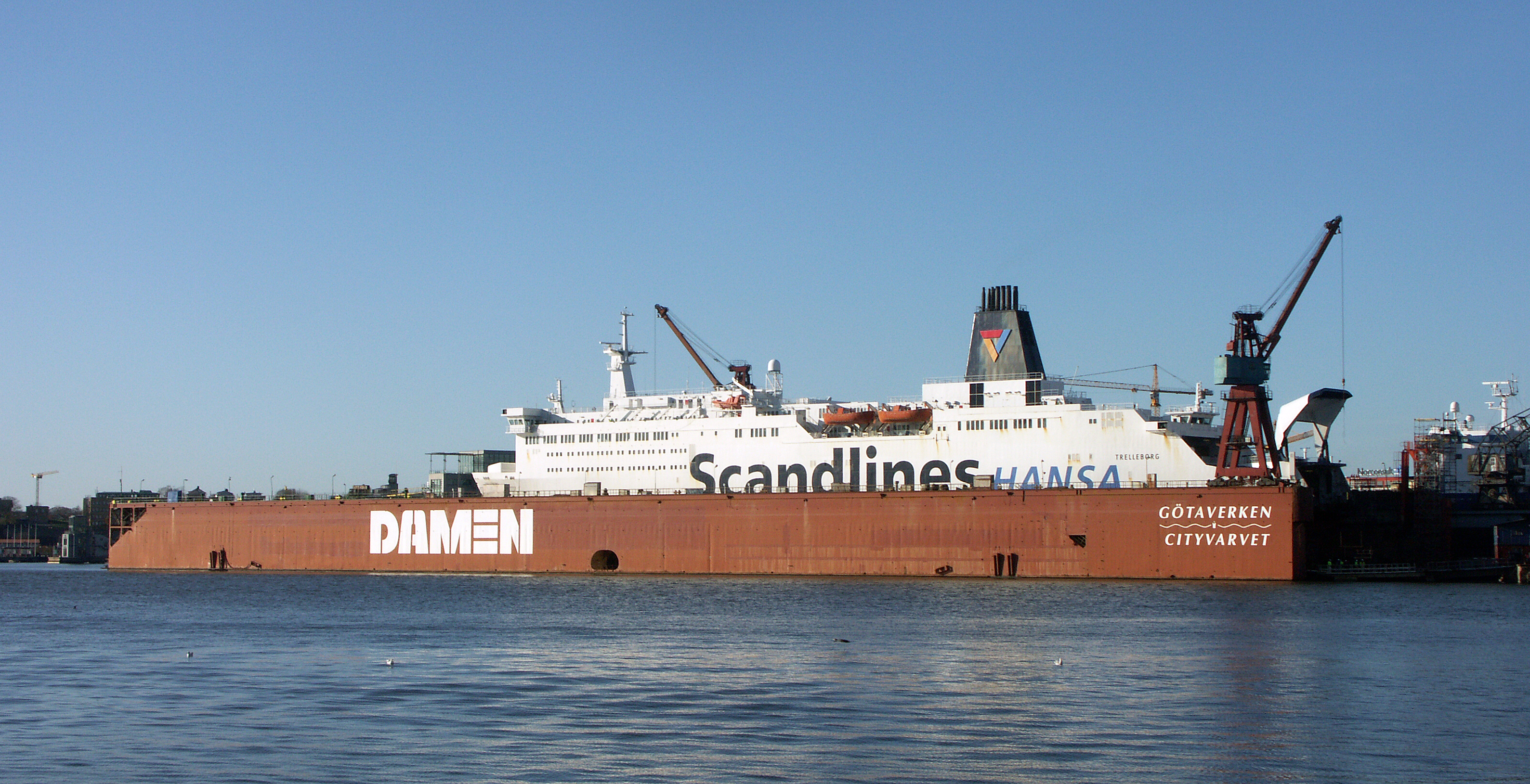 Cityvarvet dry dock in Gothenburg